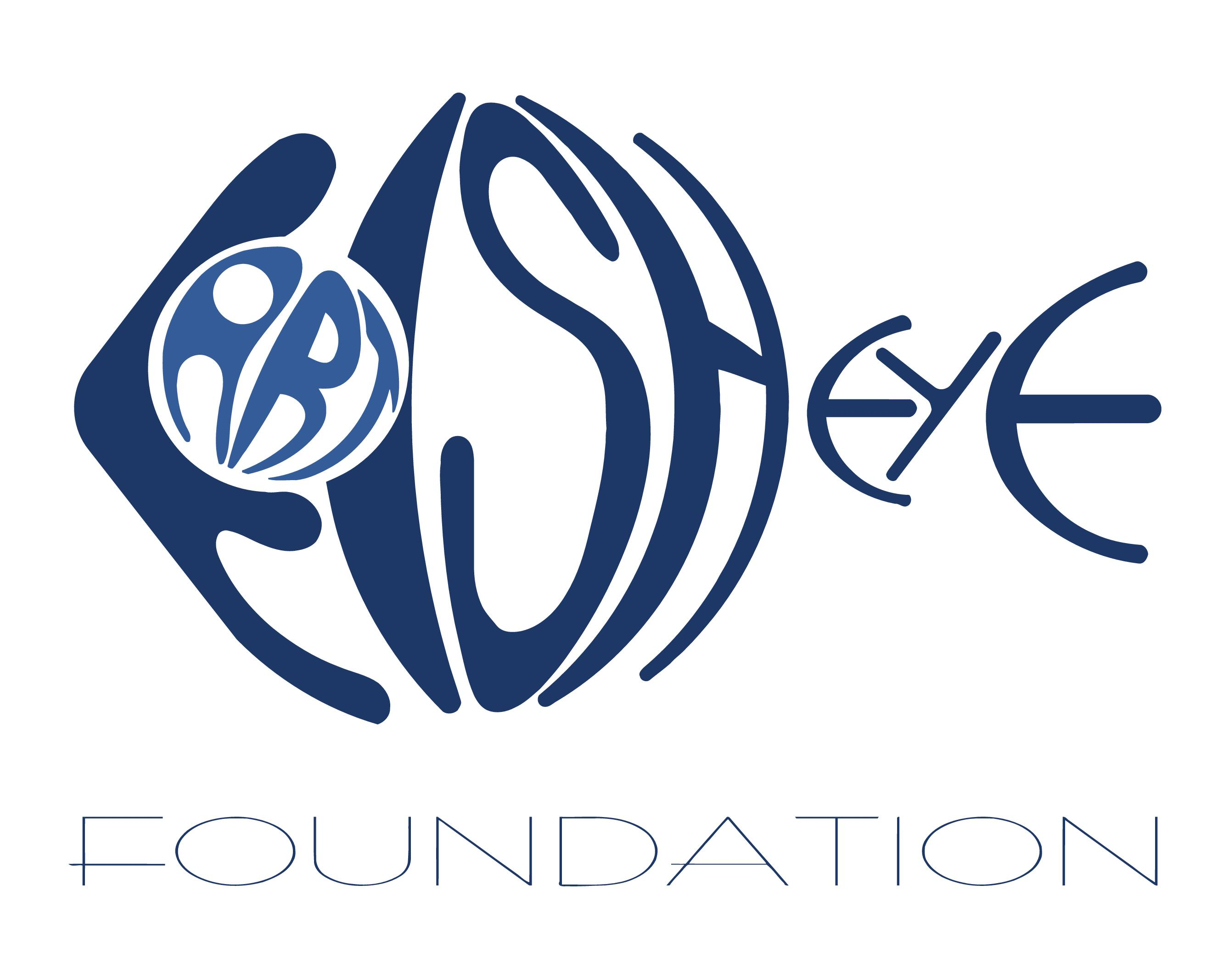 Picture of the Fish eye Art Cultural Foundation